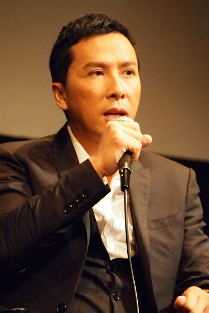 Yen at the New York Asian Film Festival